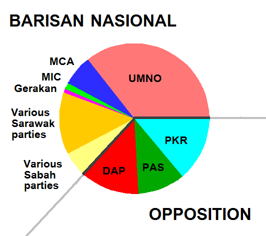 Composition of Malaysian 13th Parliament following 2008 Elections. Generated using tool found in